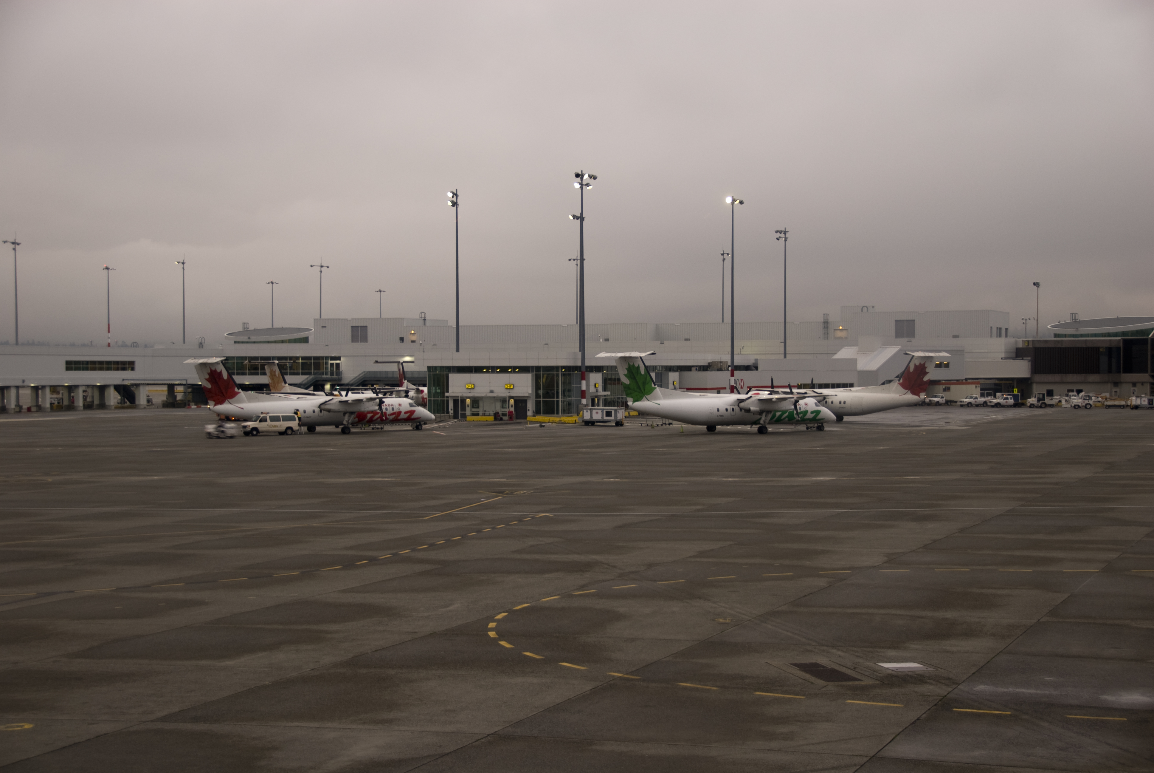 A collection of Air Canada Dash 8s at Vancouver International Airport